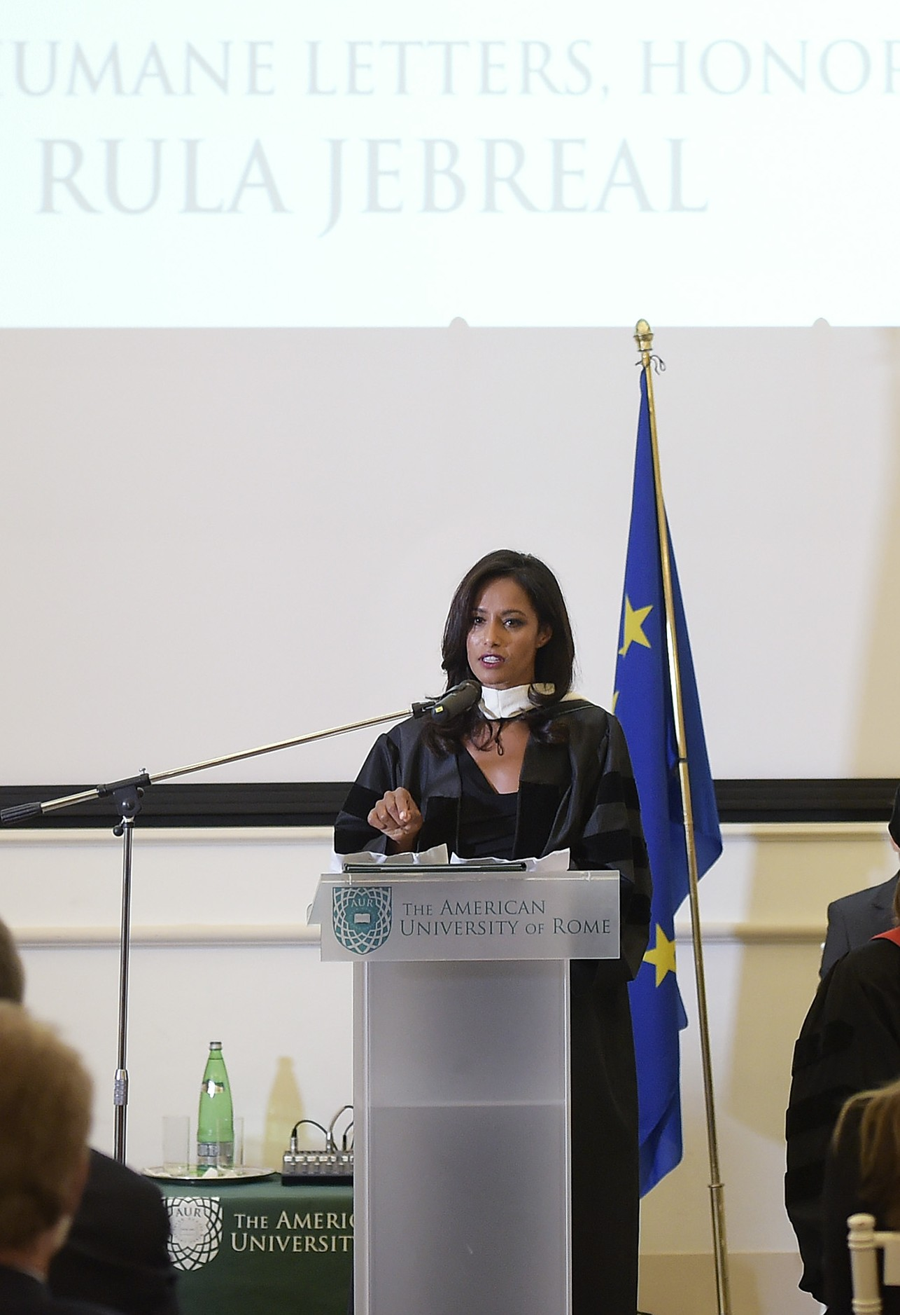 Rula Jebreal the American University of Rome, September 2017.